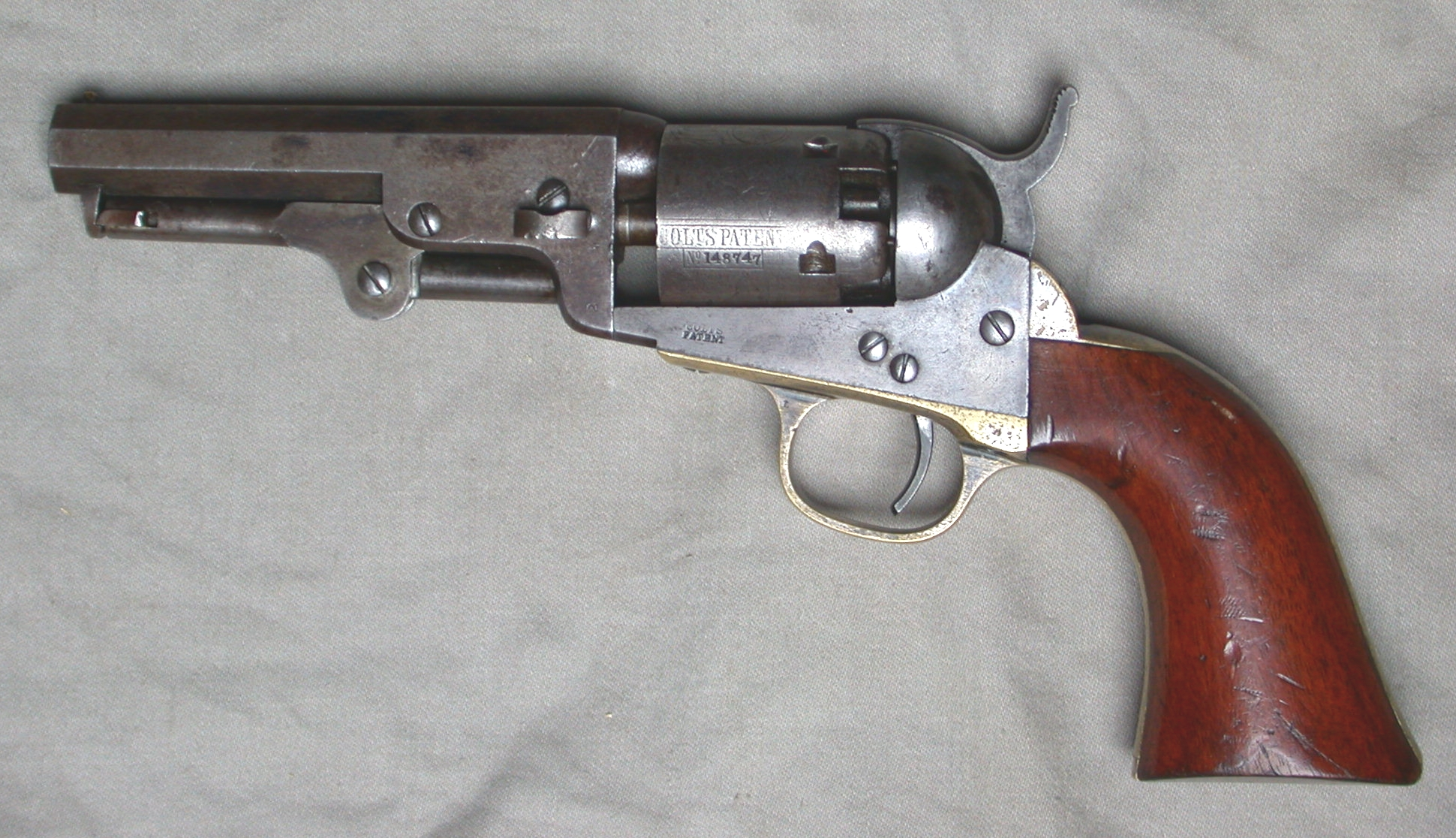 Colt Pocket Mod 1849, cal .31